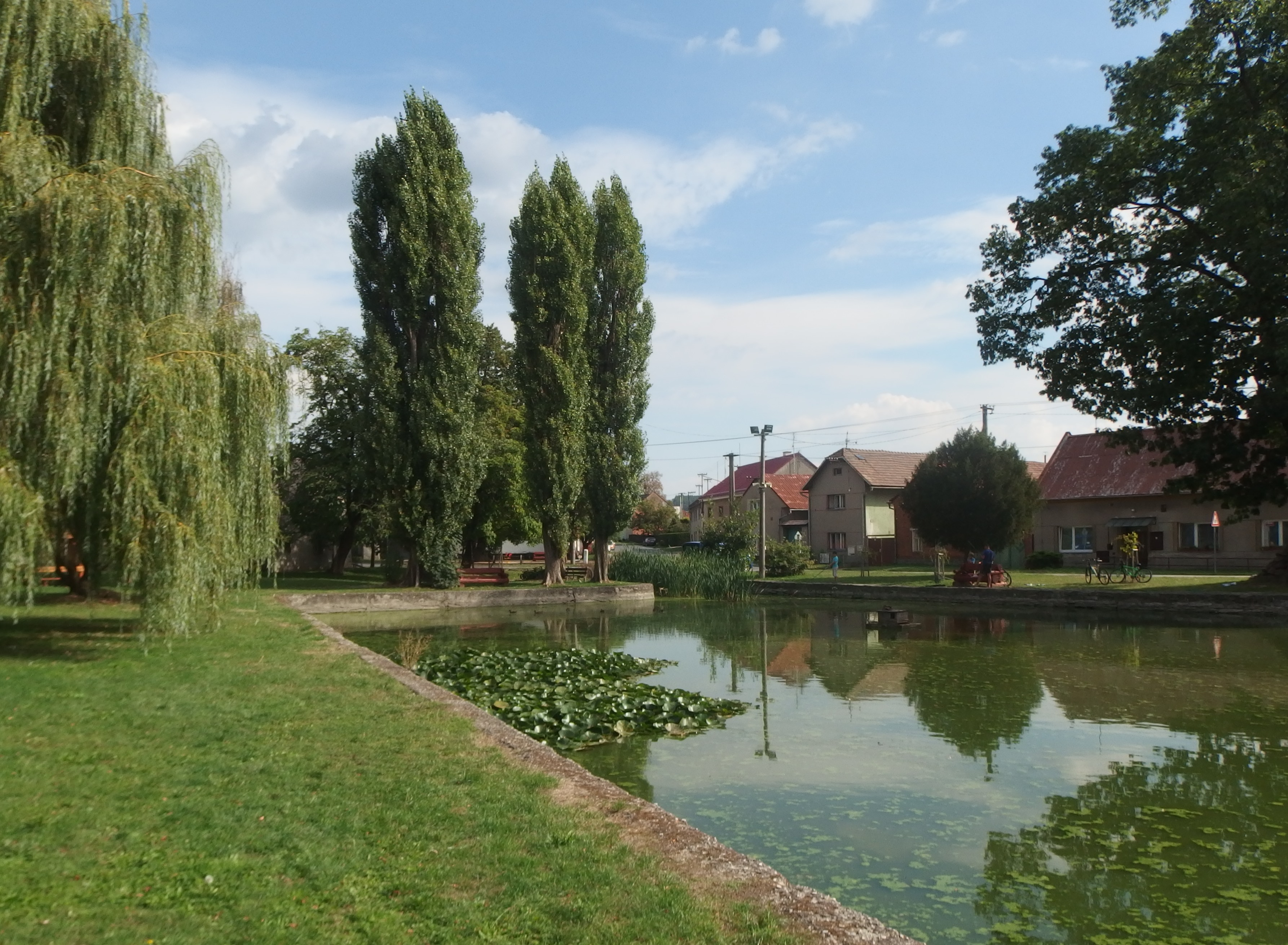 Bělkovice-Lašťany, Olomouc District, Czech Republic.